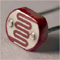 Photo Resistor